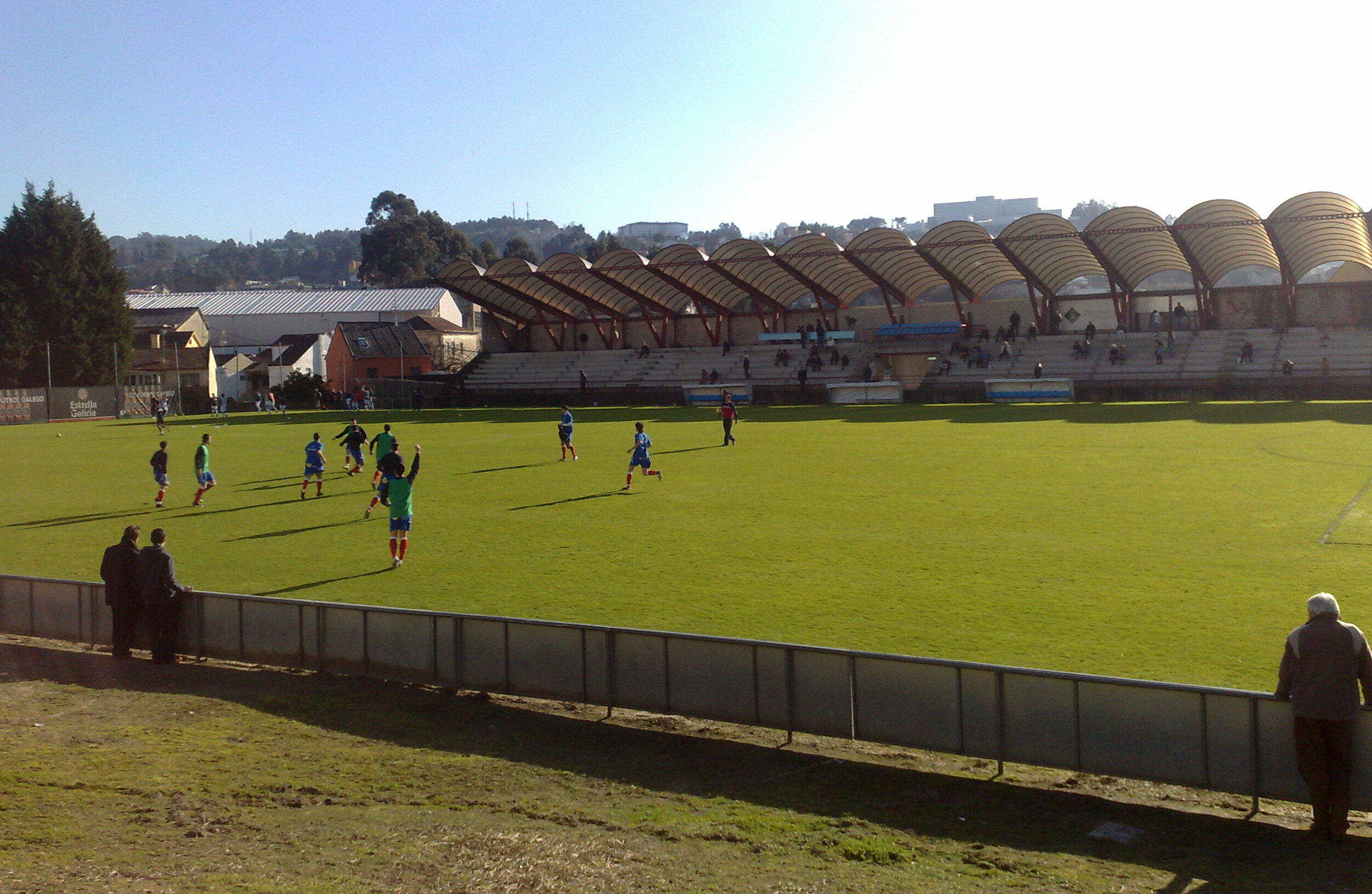 Barreiro Stadium :Home of Celta B and Gran Peña